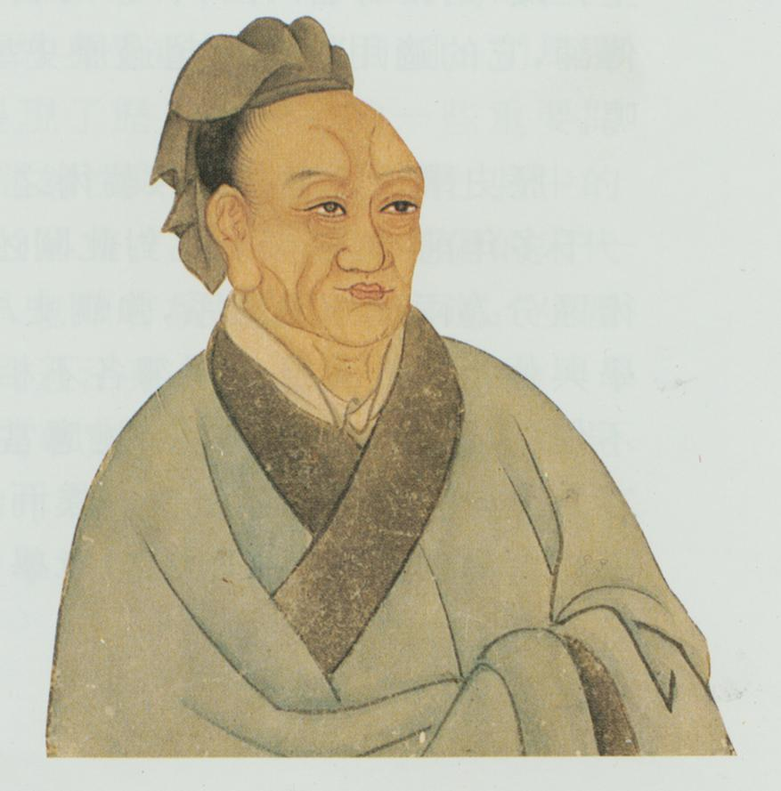 portrait of Sima Qian